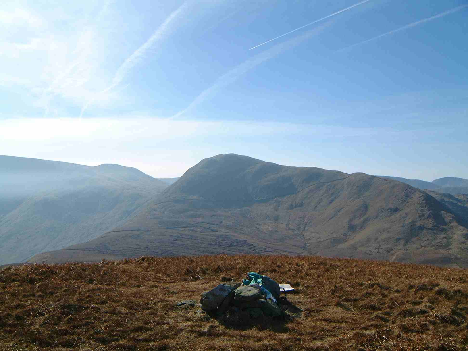 Personal photograph taken on 18th March 2003 by Mick Knapton